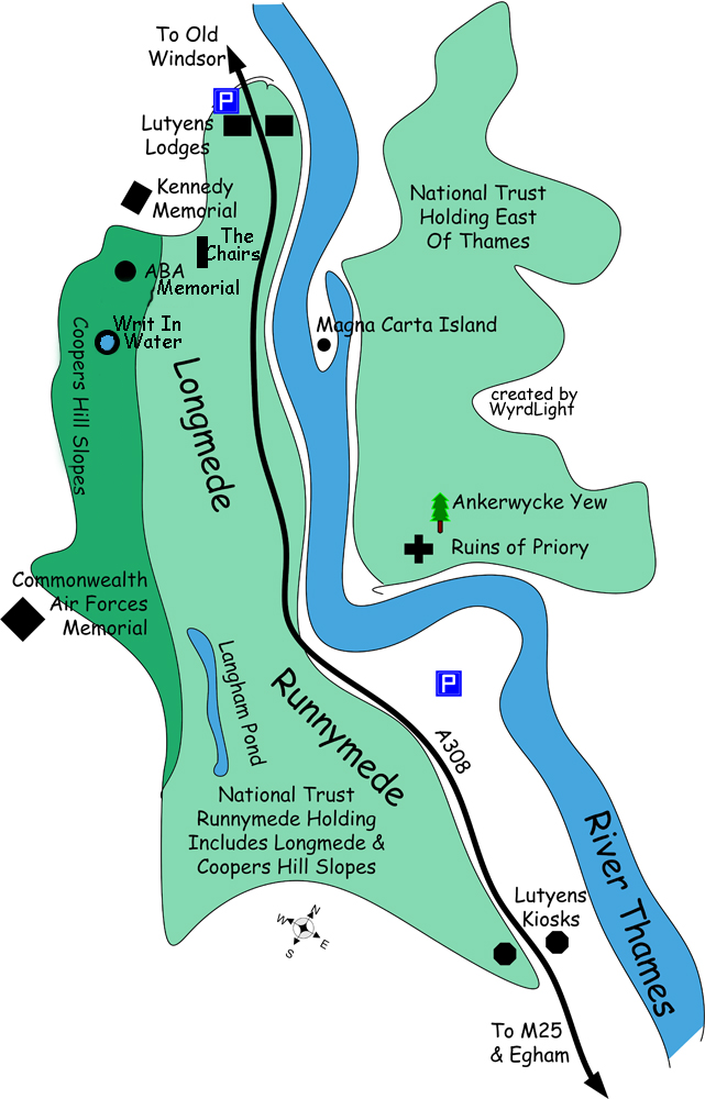 Diagram of Runnymede 2018 showing approximate location of public art workd